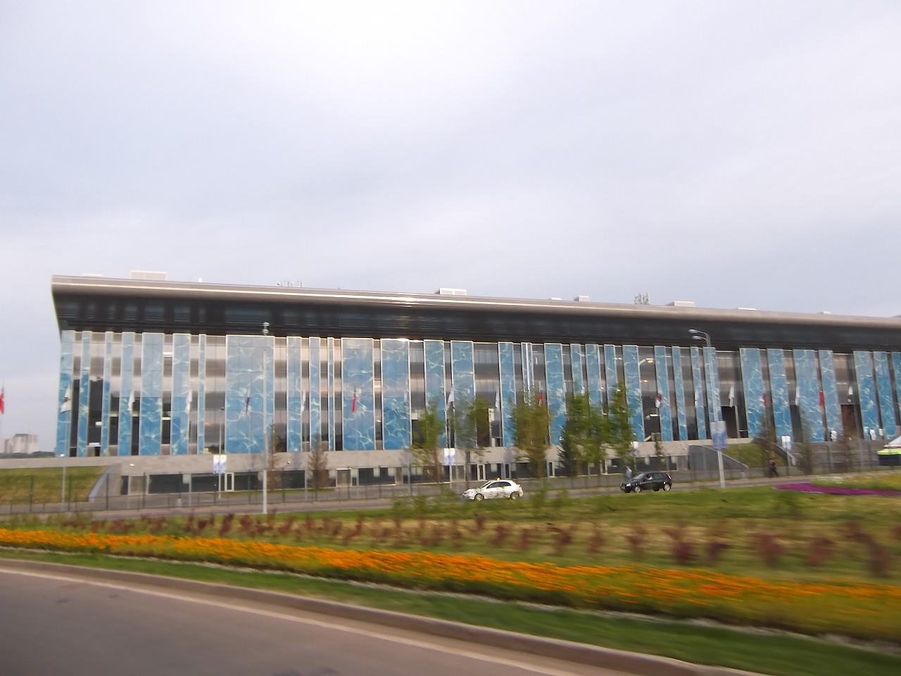 Aquatics Palace of Water Sports in Kazan, facade